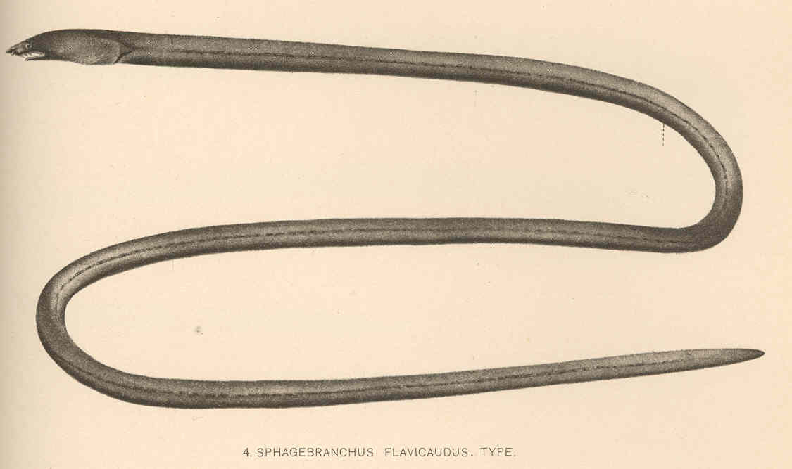 Sphagebranchus flavicaudus. Type Subject: Snake eels, Sphagebranchus Tag: Fish